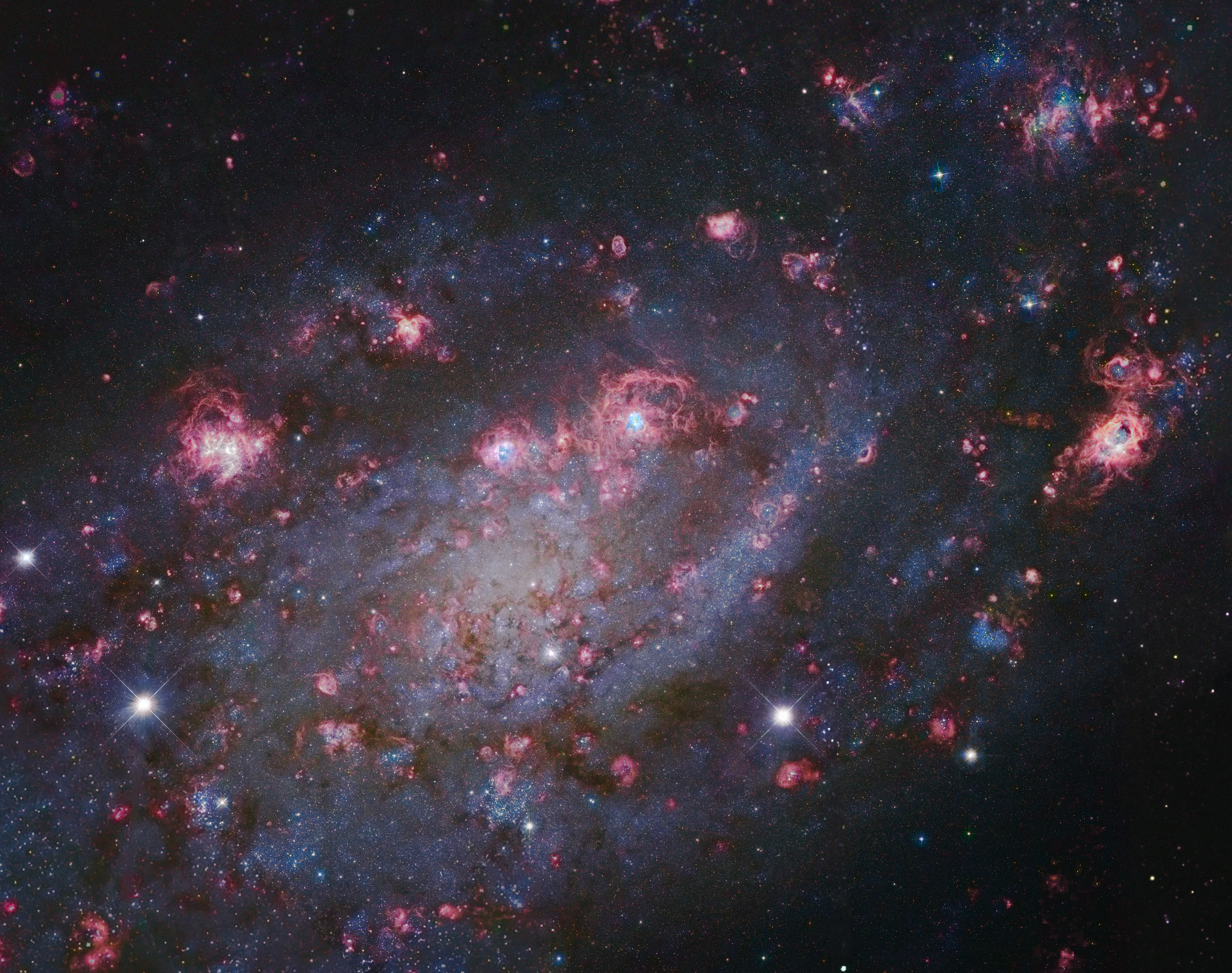 ngc 2403